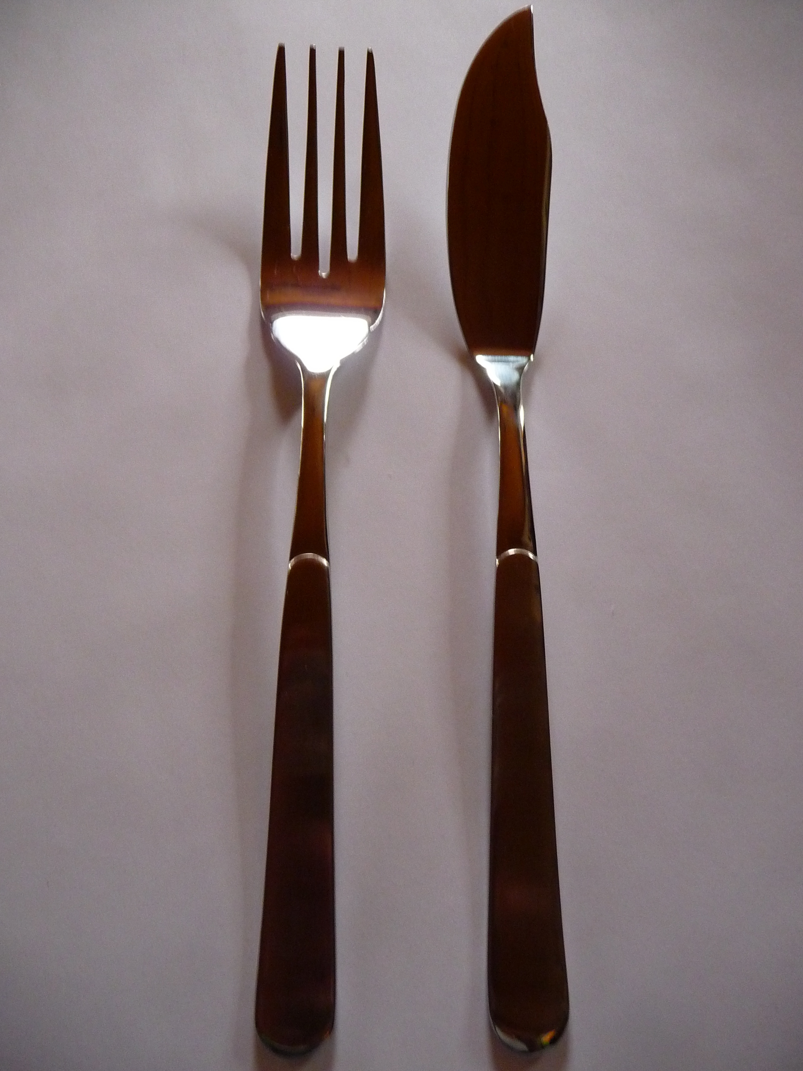 fish cutlery